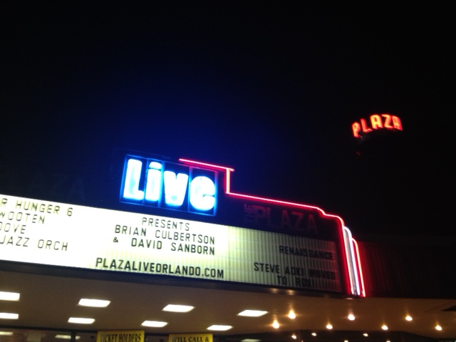 The Plaza Live Marquee at night time